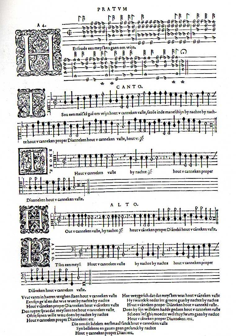 Page (f. 59v) of the "Pratum musicum" (RISM, 158412) by Emanuel Adriaenssen, printed in Antwerp 1584, with the tabulature and partitions for "canto" and "alto" of the song Het soude een meysken gaen om wijn ("A girl would go for some wine"). It concerns the first edition from two of this song.